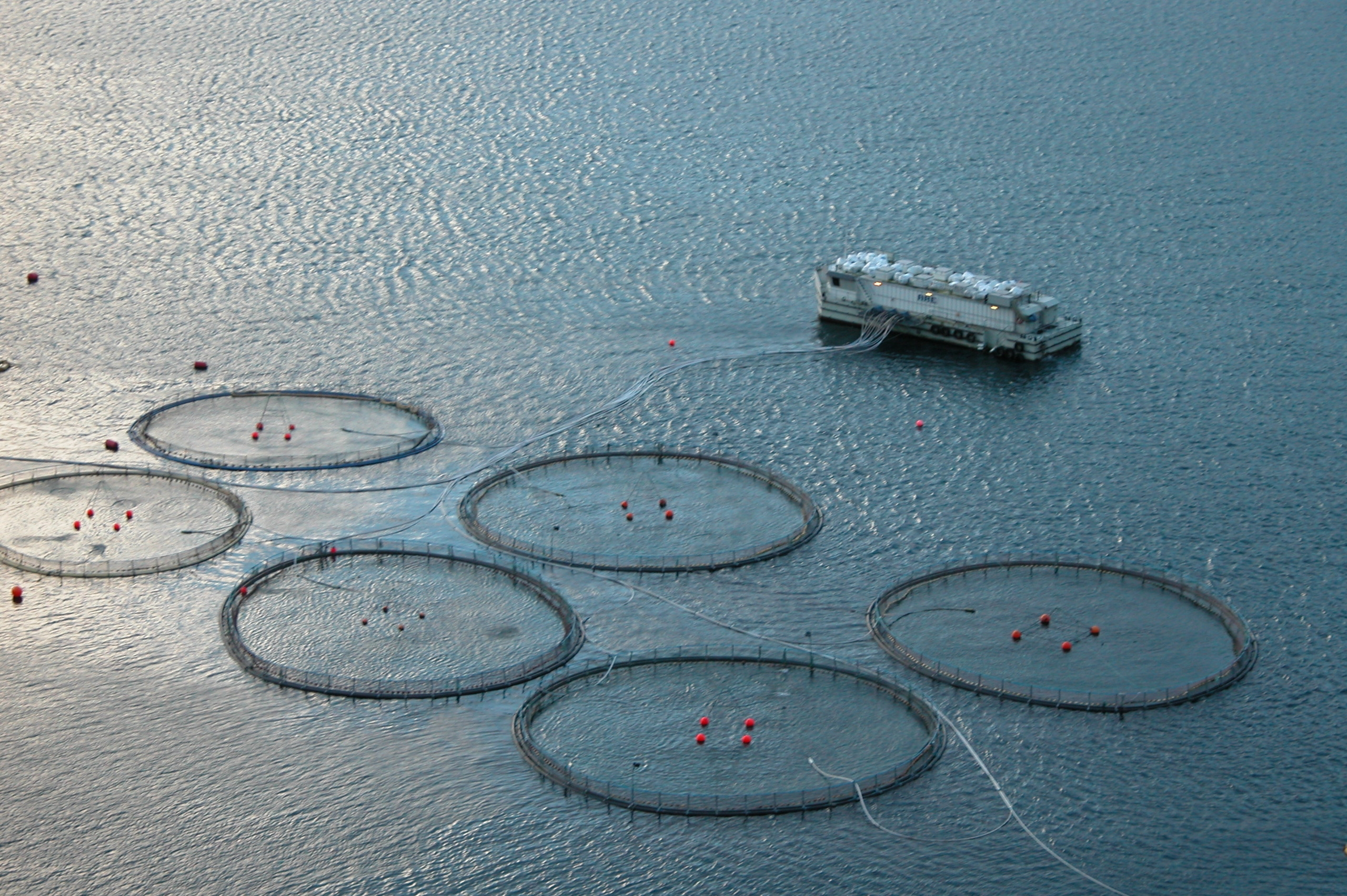 Aqua culture off Vestmanna on Streymoy, Faroe Islands